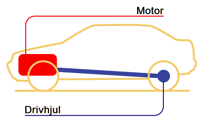 Figure showing front engine, rear drive wheel in Norwegian